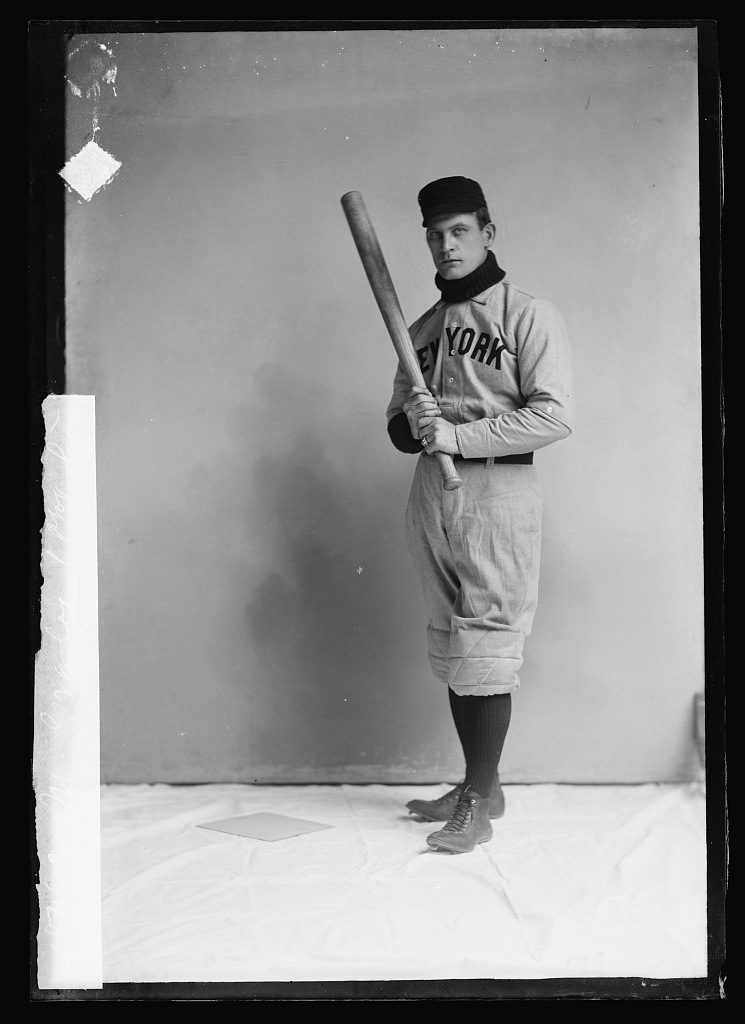 Mike Grady - New York Giants photographed with bat in C. M. Bell Studio